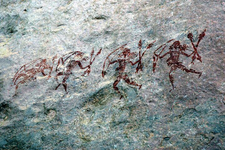 rock shelter painting of prehistoric time loacted in aadamgargh,hoshangabad district, M.P India